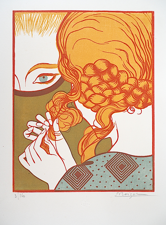 Le Miroir, colored woodcut, signed by Emile Boizot (1876-1948), dim.: 32,5 x 25,5 cm, numbered (3/160)